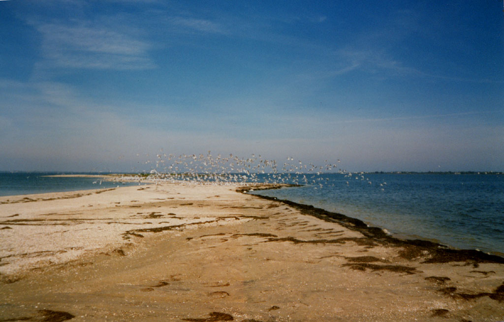 Great Dzendzyk cape at the tip of Berdyansk spit (Sea of Azov)